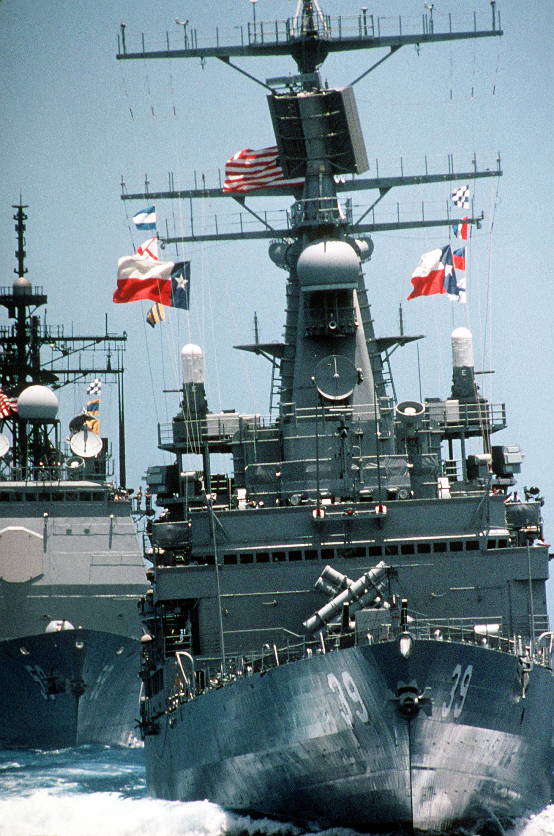 The nuclear-powered guided missile cruiser USS TEXAS (CGN-39), foreground, and the guided missile cruiser USS PRINCETON (CG-59) maneuver during the multinational Exercise RimPac '90. The Pacific Rim nations of Australia, Canada, Japan, South Korea, and the U.S. are participating in the annual naval and amphibious exercise.